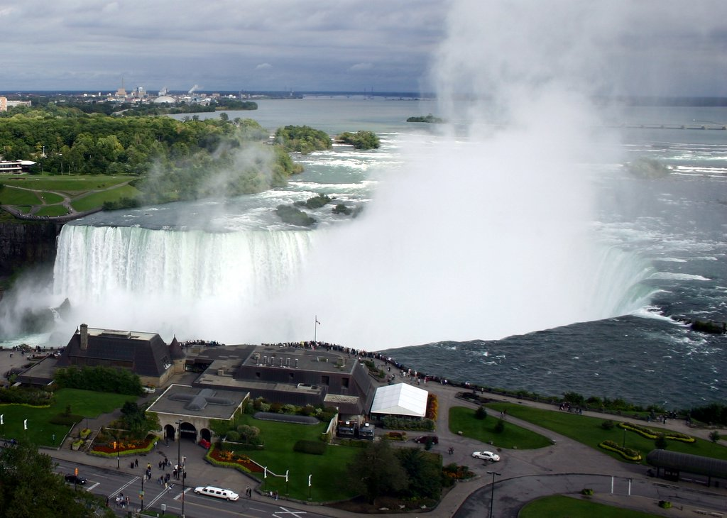 Ontario's Horseshoe Falls, from the 16th floor of the Marriott hotel on Fallsview Boulevard.